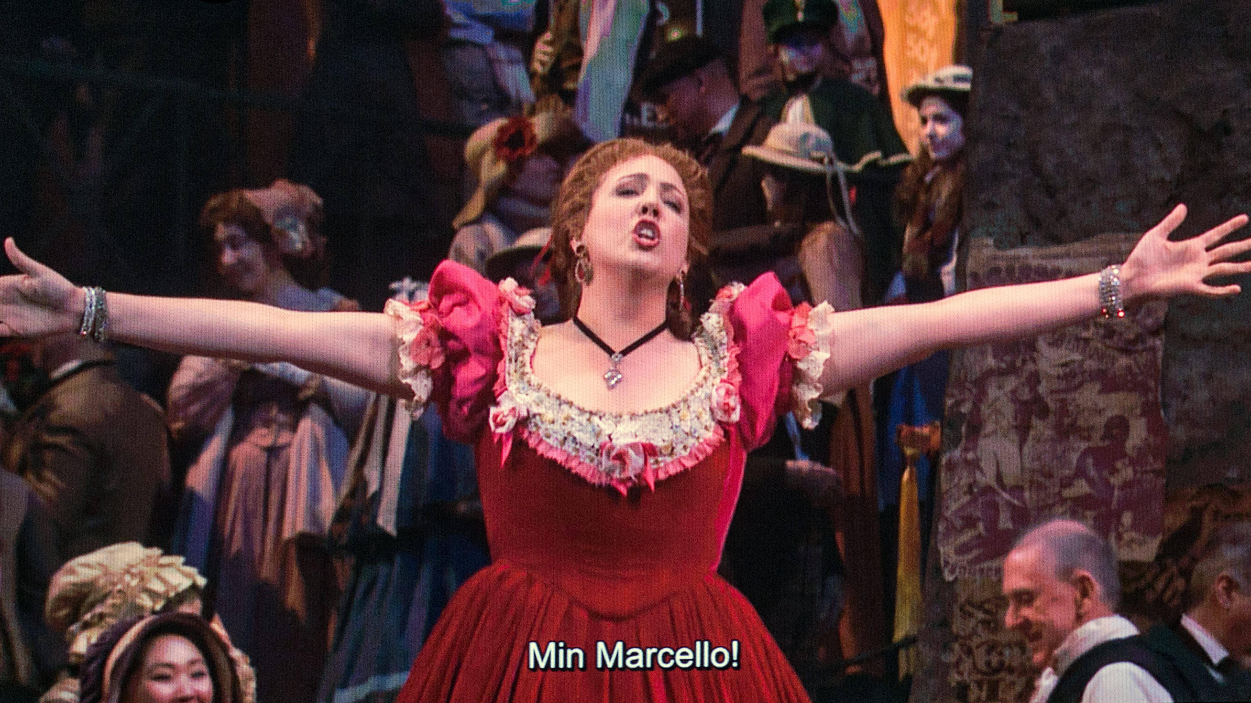 La Bohème from the Metropolitan Opera April 2014